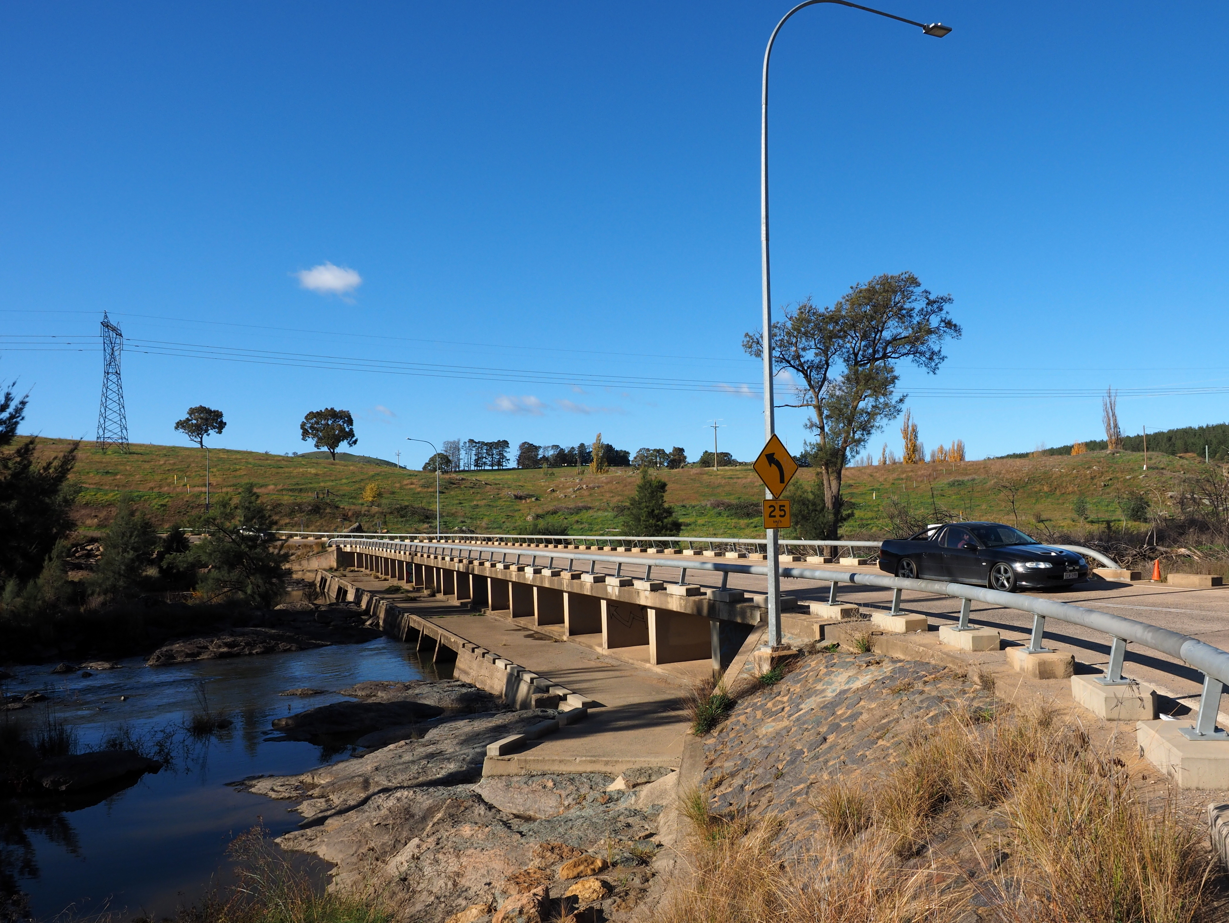 Coppins Crossing bridge over the Molonglo River